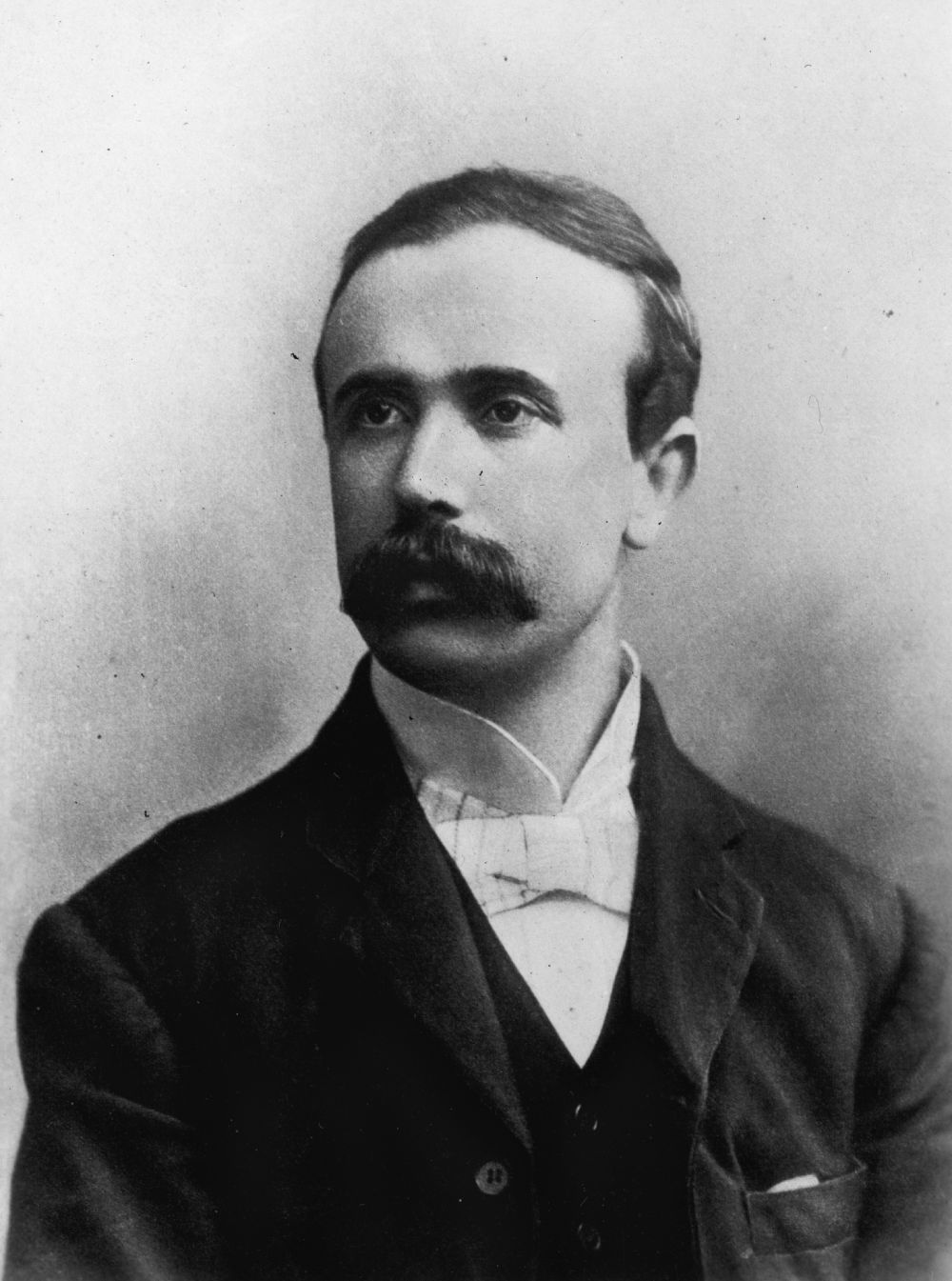 Australian poet Edward George 'Ted' DYSON (1865-1931), taken prior to 1900. Date unknown. Original held by John Oxley Library, State Library of Queensland, Australia.;Other information